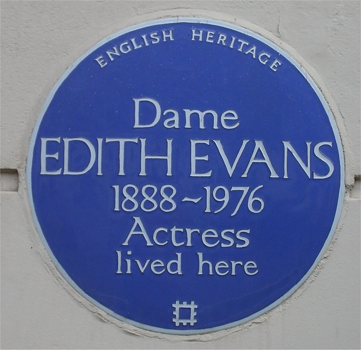 Blue plaque to Edith Evans on her house at 109 Ebury Street, London, England. Photographed by me 29 September 2006. Oosoom